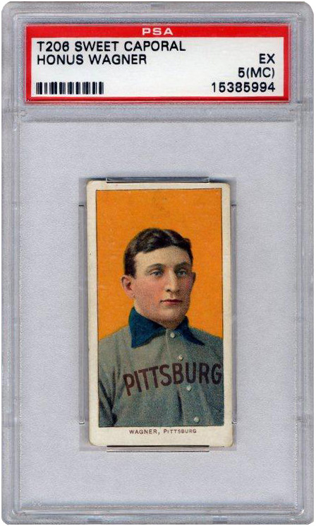 The latest 1909 T206 Honus Wagner known in the industry as 'the Jumbo' is set to be auctioned off next month by Goldin Auctions. The high grade from PSA [EX 5 - MC] is expected to exceed all previous sales records for a T206 Honus Wagner.